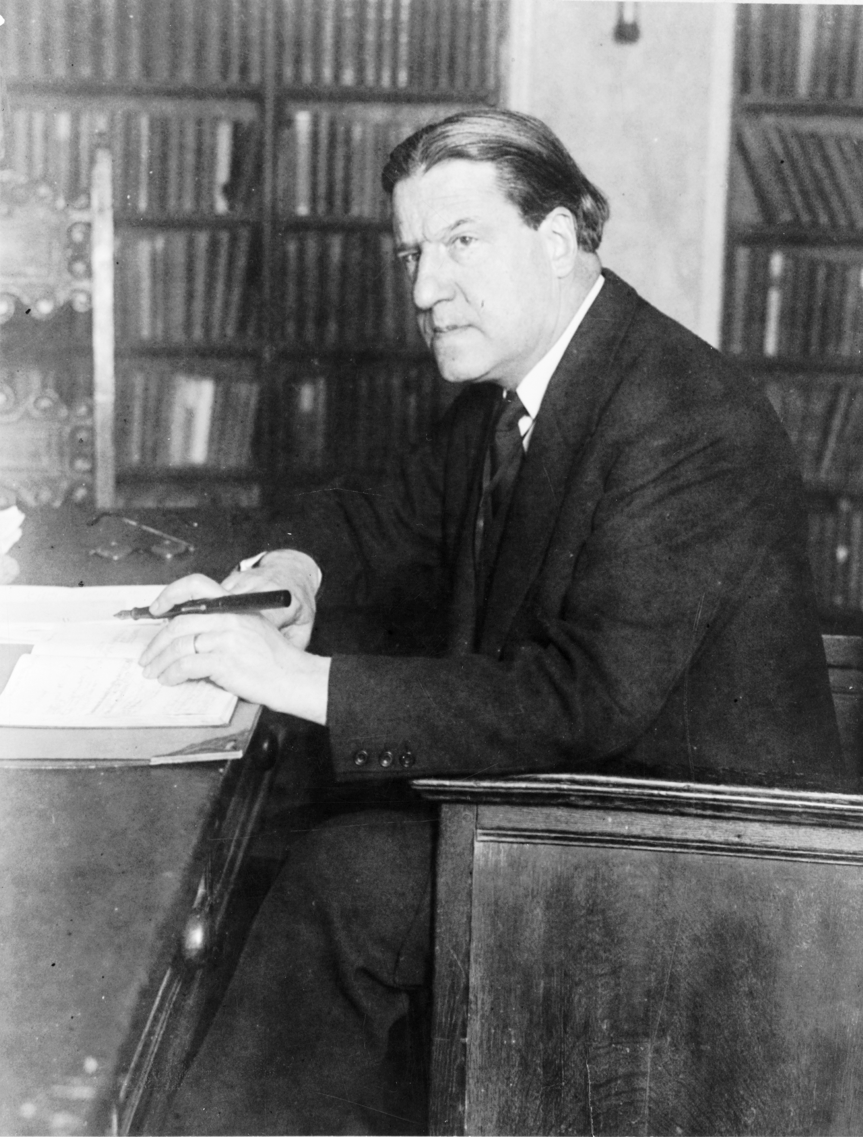 Rabbi Stephen Samuel Wise, three-quarter length portrait, seated at desk, facing left, holding pen